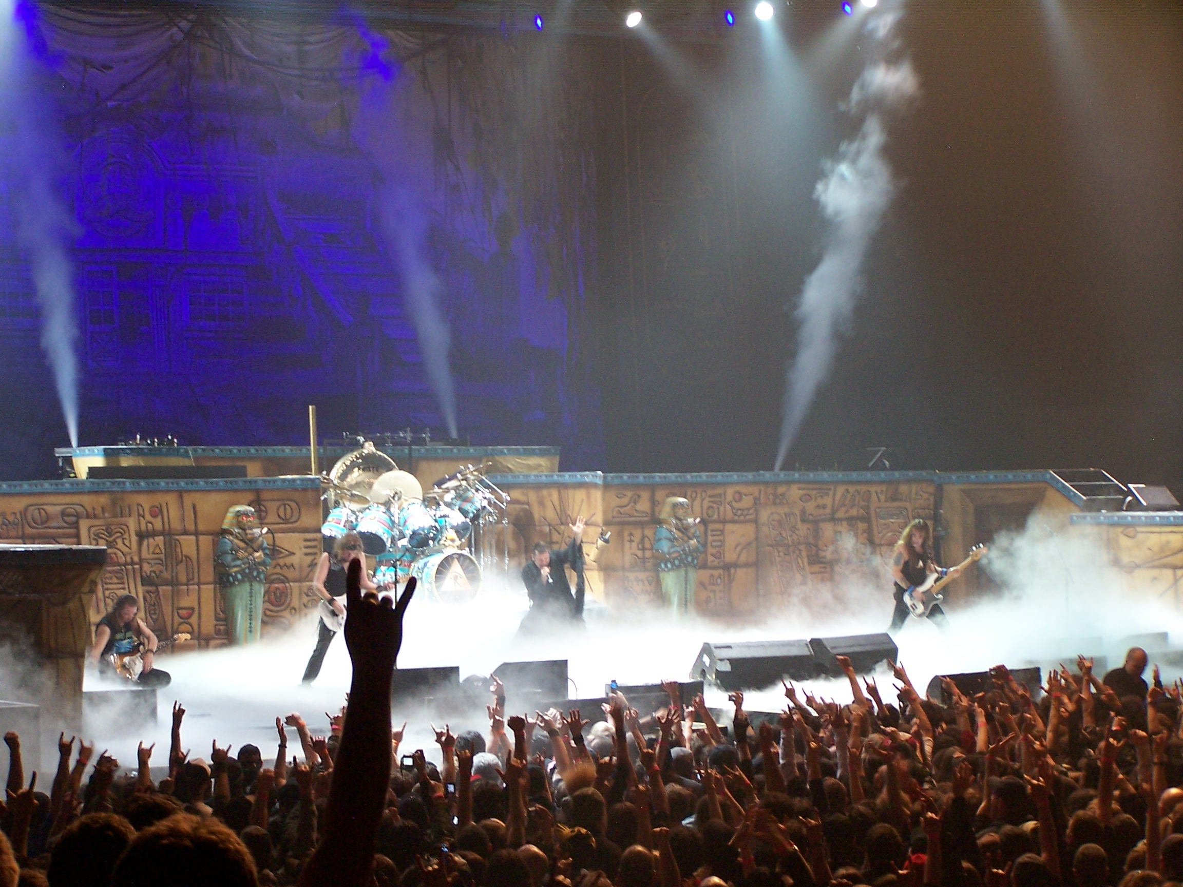 Iron Maiden perform in Toronto, March 16, 2008.